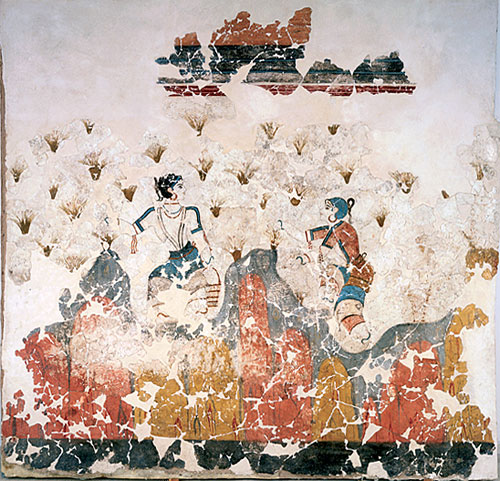 Fresco of saffron gatherers from the bronze age excavations in Akrotiri on the greek island of Santorini, Greece.